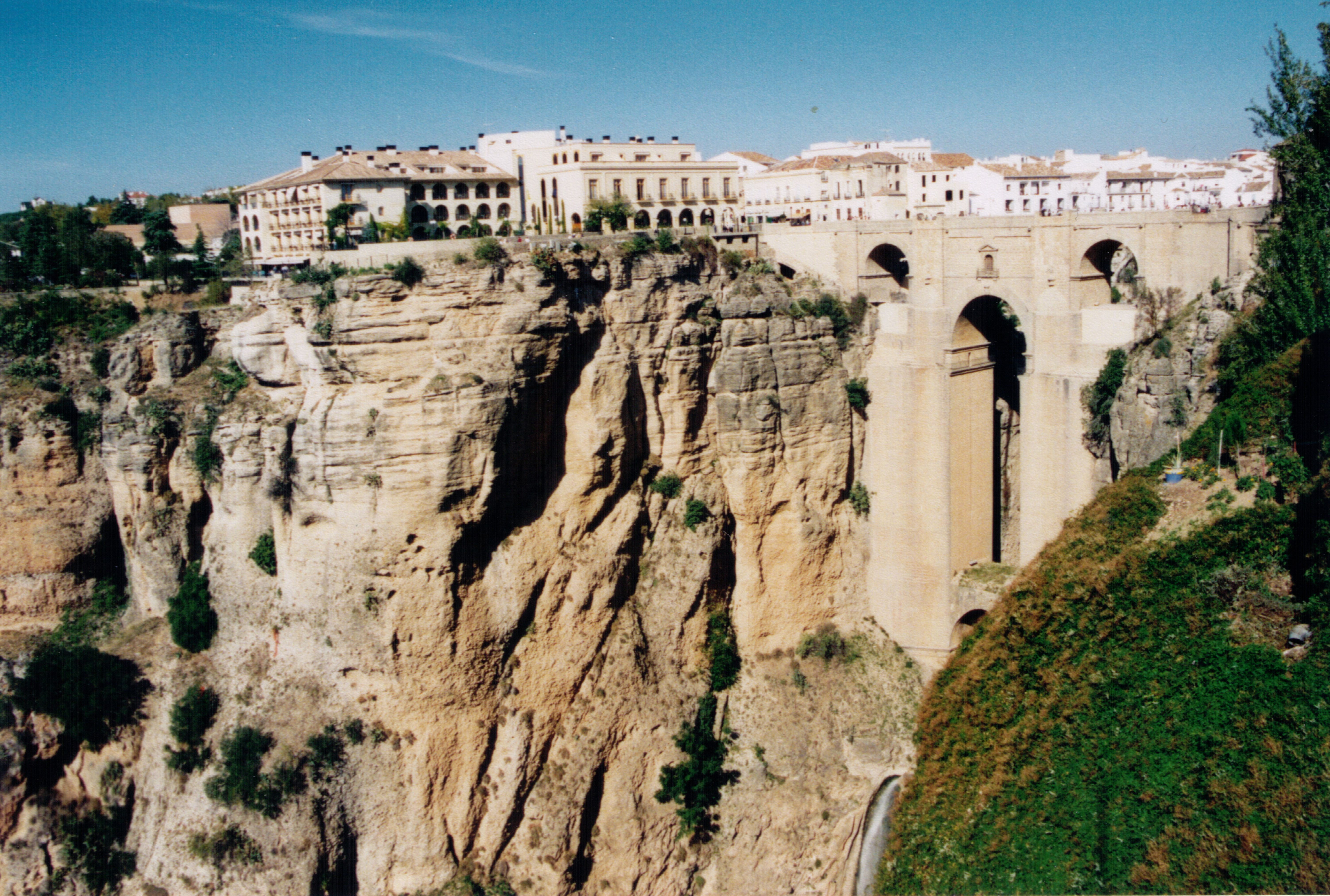 Ronda, city view